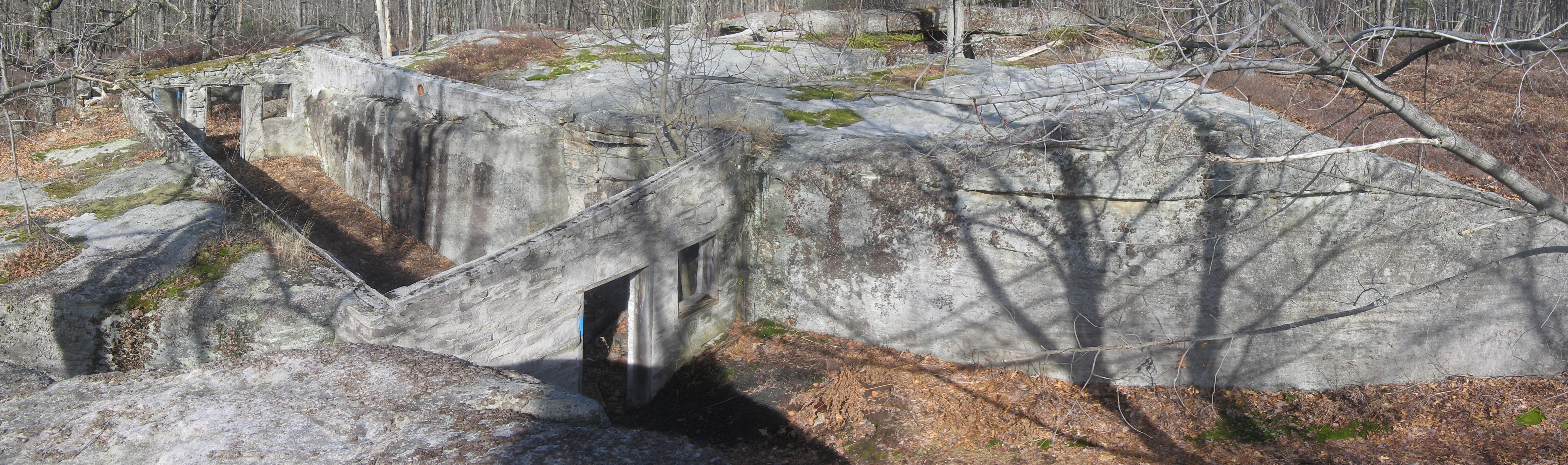 Kunes Camp in Quehanna Wild Area, a former hunting camp built between two boulders in the early 1900s. Clearfield County, Pennsylvania, USA